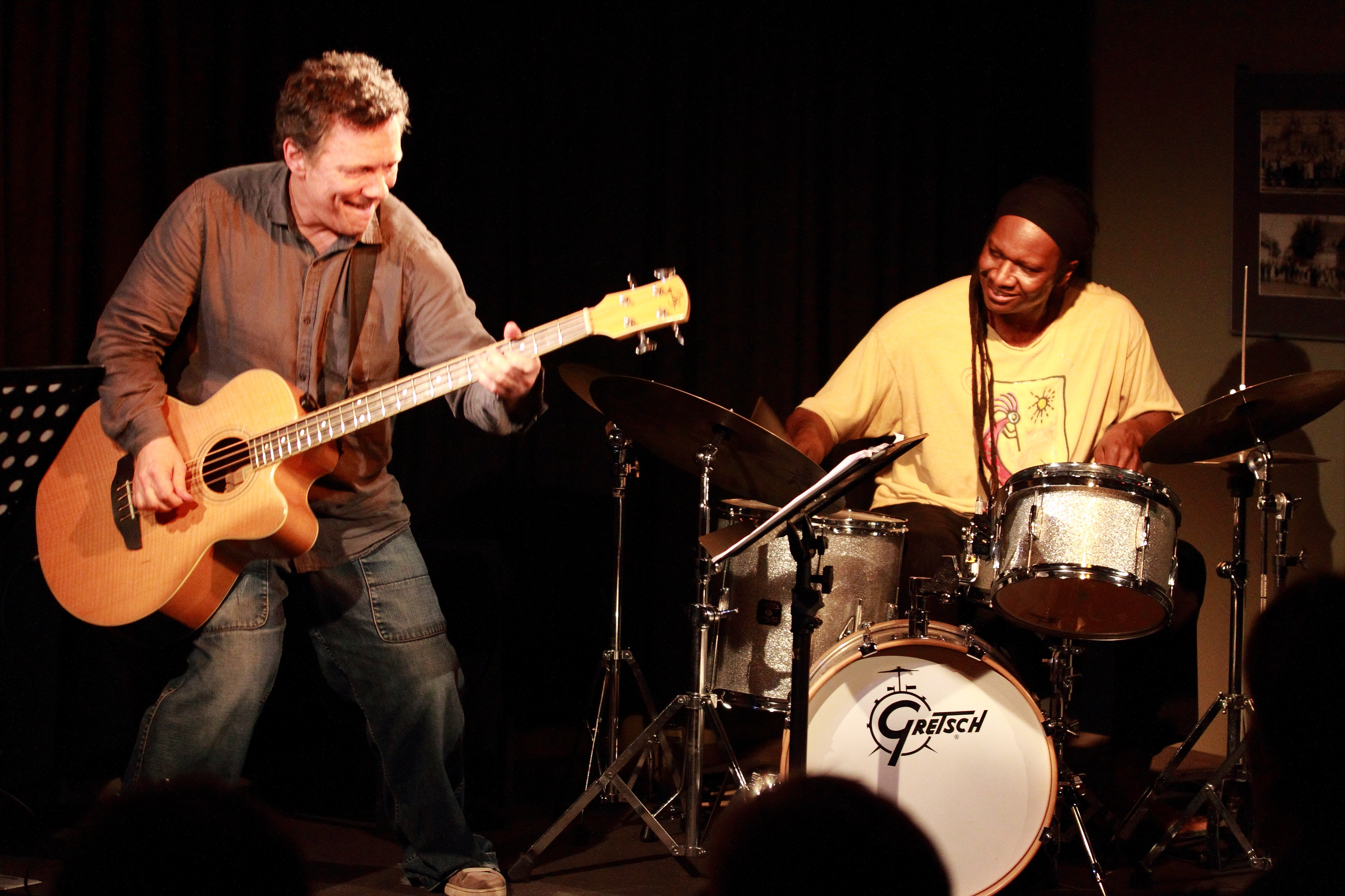 Luc Ex´Assemblée (Ab Baars, sax & cl; Infrid Laubrock, sax; Luc Ex, bg; Hamid Drake, dr & perc) in concert at Club W71, Weikersheim.